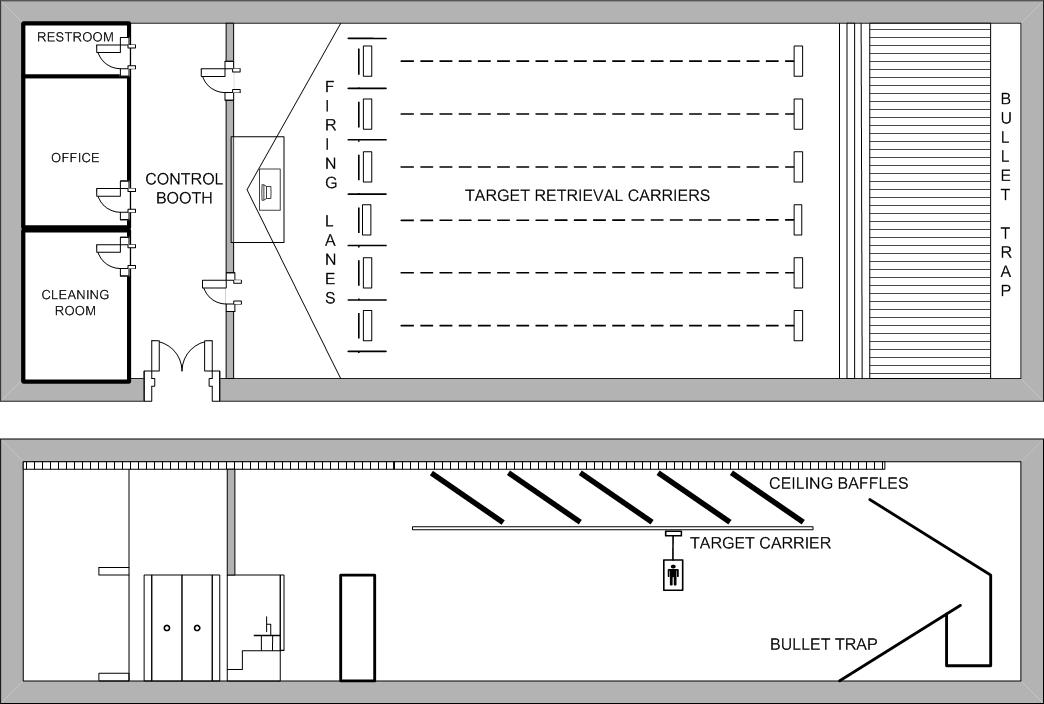 Floor and sectional diagrams of a typical indoor firing range showing the various elements of the range - firing lanes, bullet trap, wall baffles, control room or station, and any adjacent facilities such as offices, weapon cleaning room, or classrooms